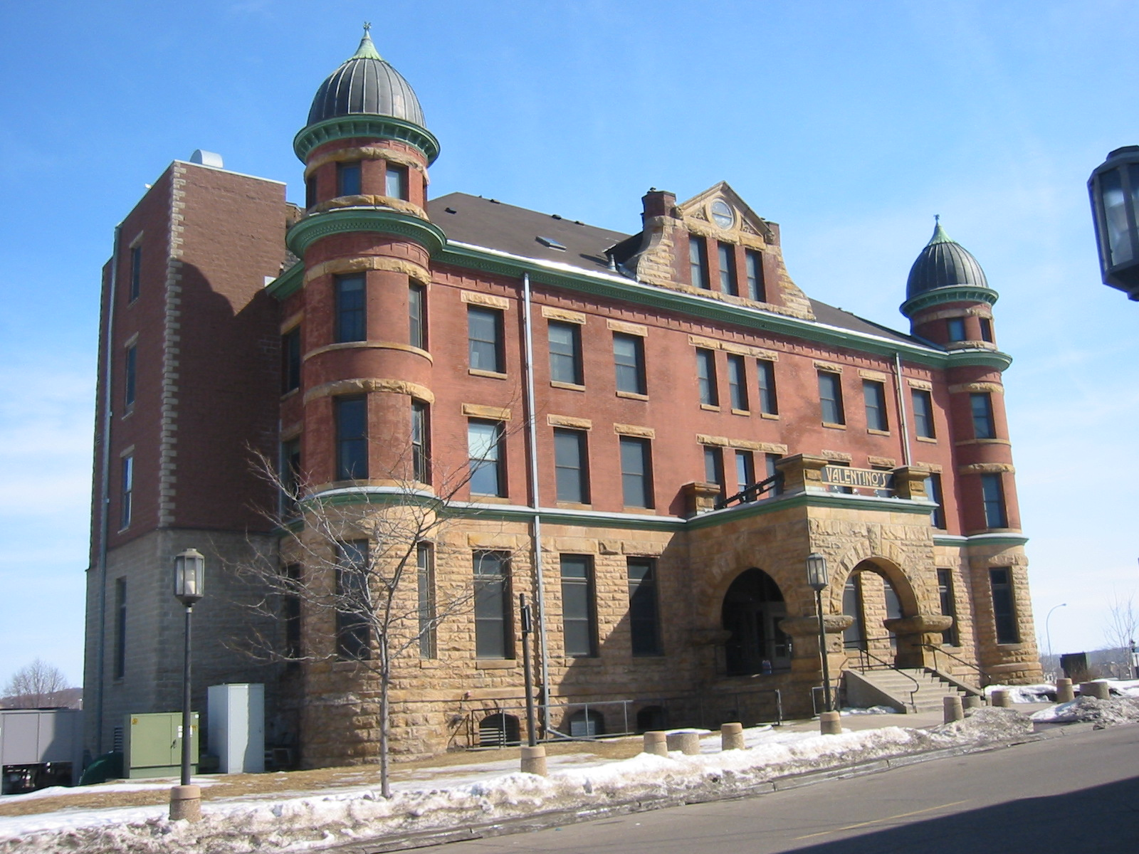 Stockyards Exchange in South St. Paul, Minnesota.